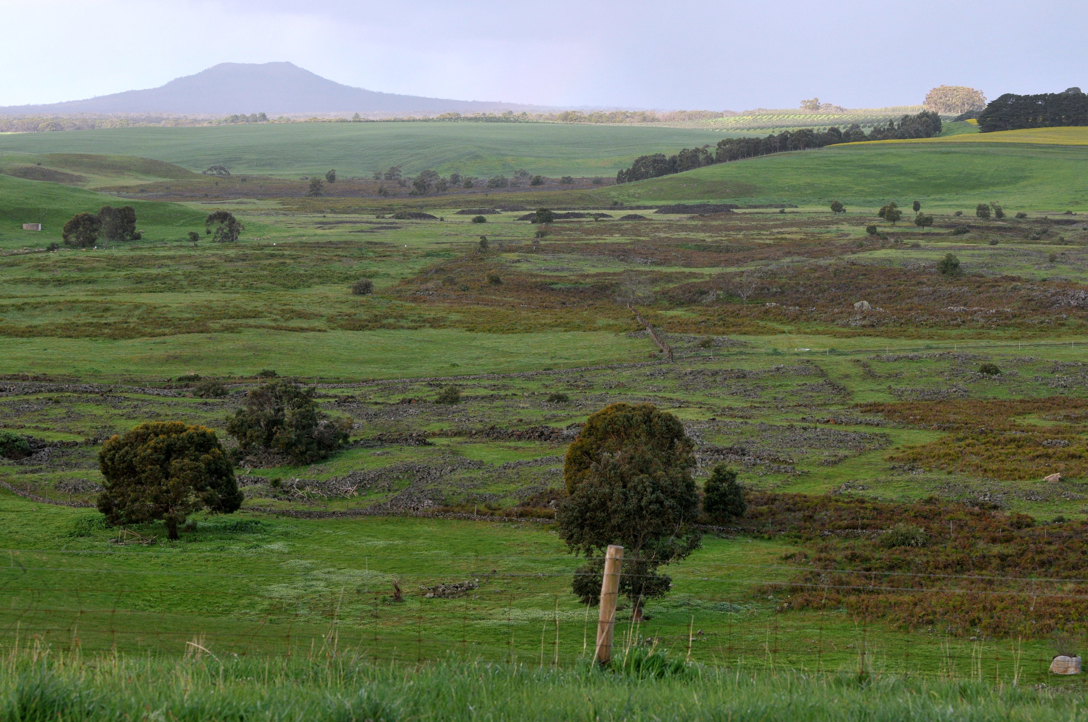 View of Harman's Valley taken from the Hamilton Port Fairy Road (C184) about 90m south of the P Christies Road, near Byaduk North, Victoria, Australia. In the background is Mt Napier.